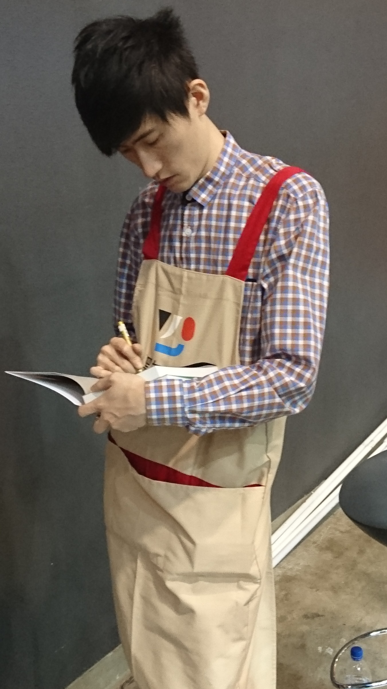 Lam Yat Hei in Hong Kong Book Fair 2016